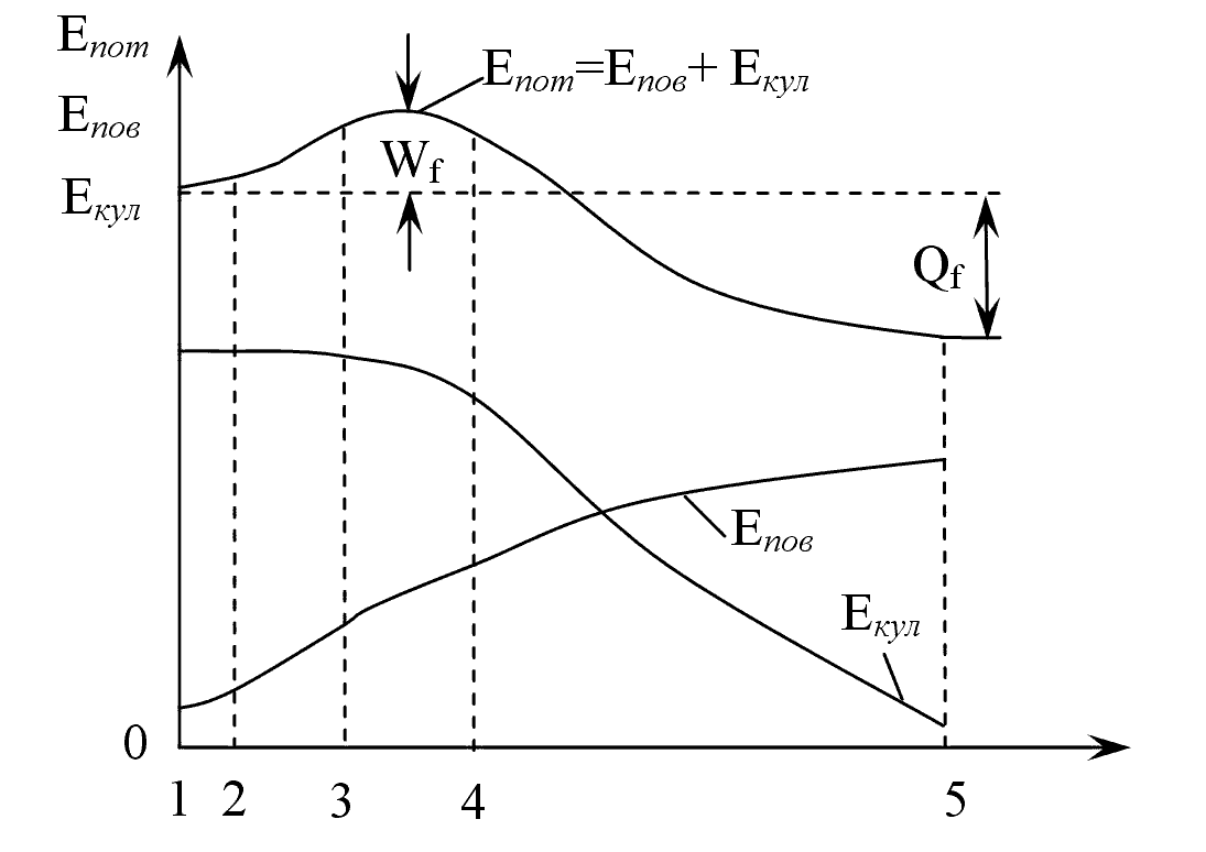 Stages of nuclear fission